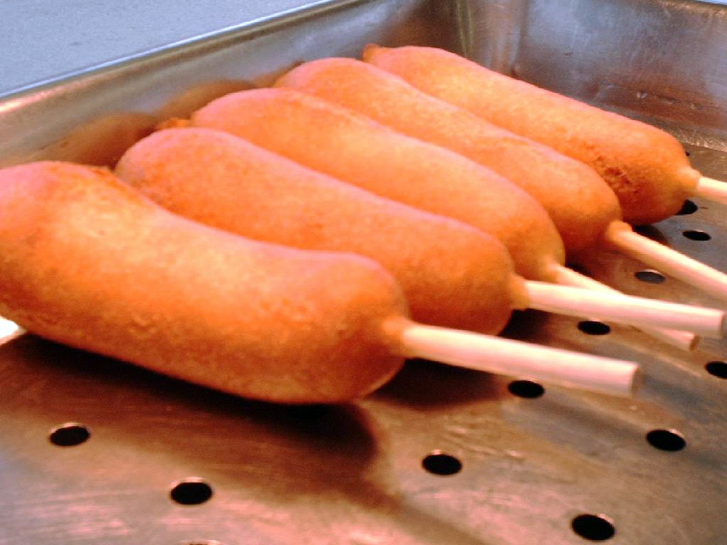 Photo I took in the summer of 2006 of freshly-made corn dogs (pronto pups) at an outdoor stand at the Olmsted County Fair in Minnesota. CC & GFDL.